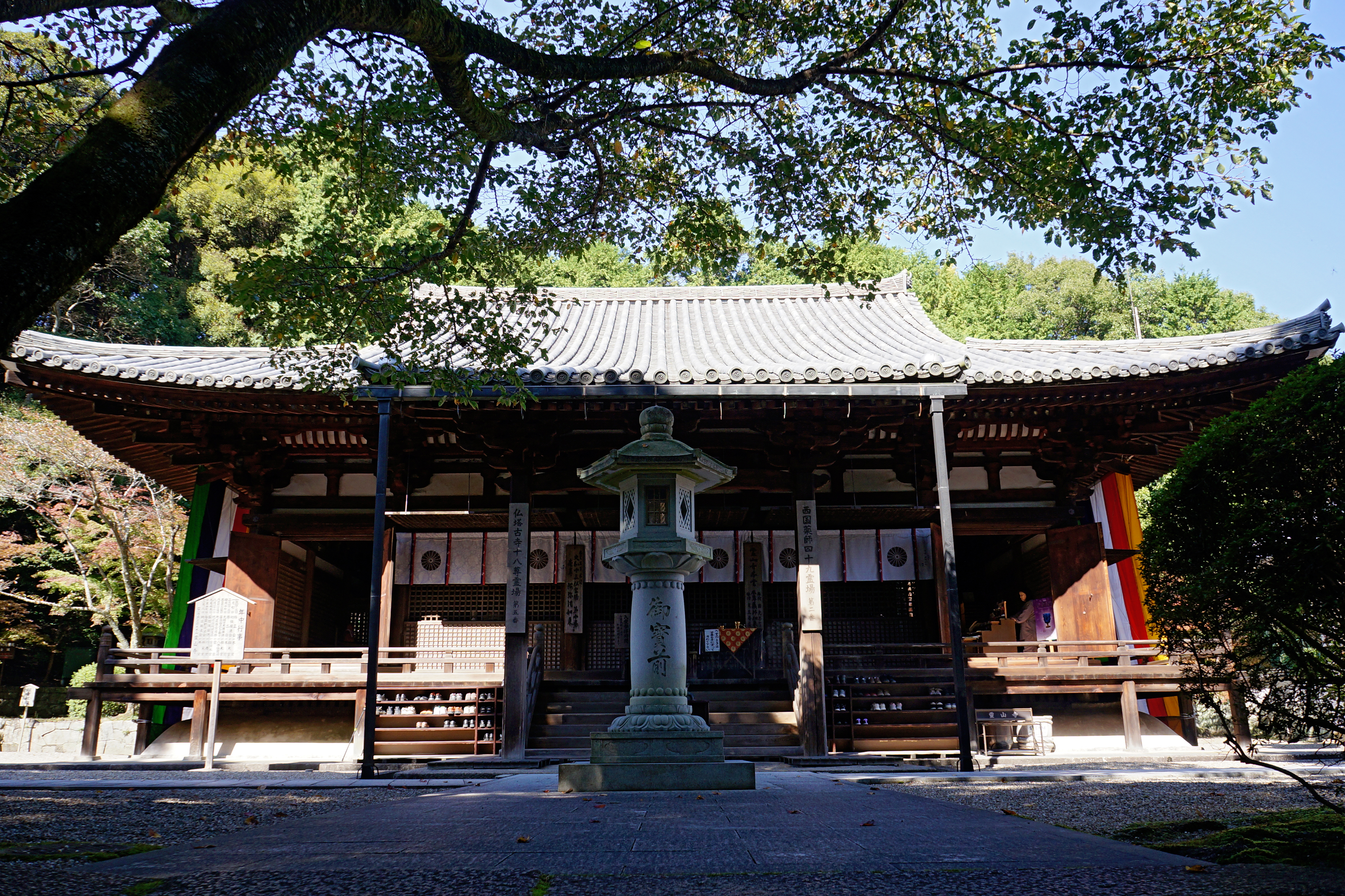 Ryōsen-ji (Nara)'s Main Hall is Japan's National Treasure in Nara, Nara prefecture, Japan. It was built in 1283.